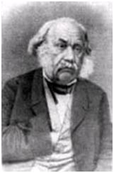 Nicolai Stepanovitch Turczaninow